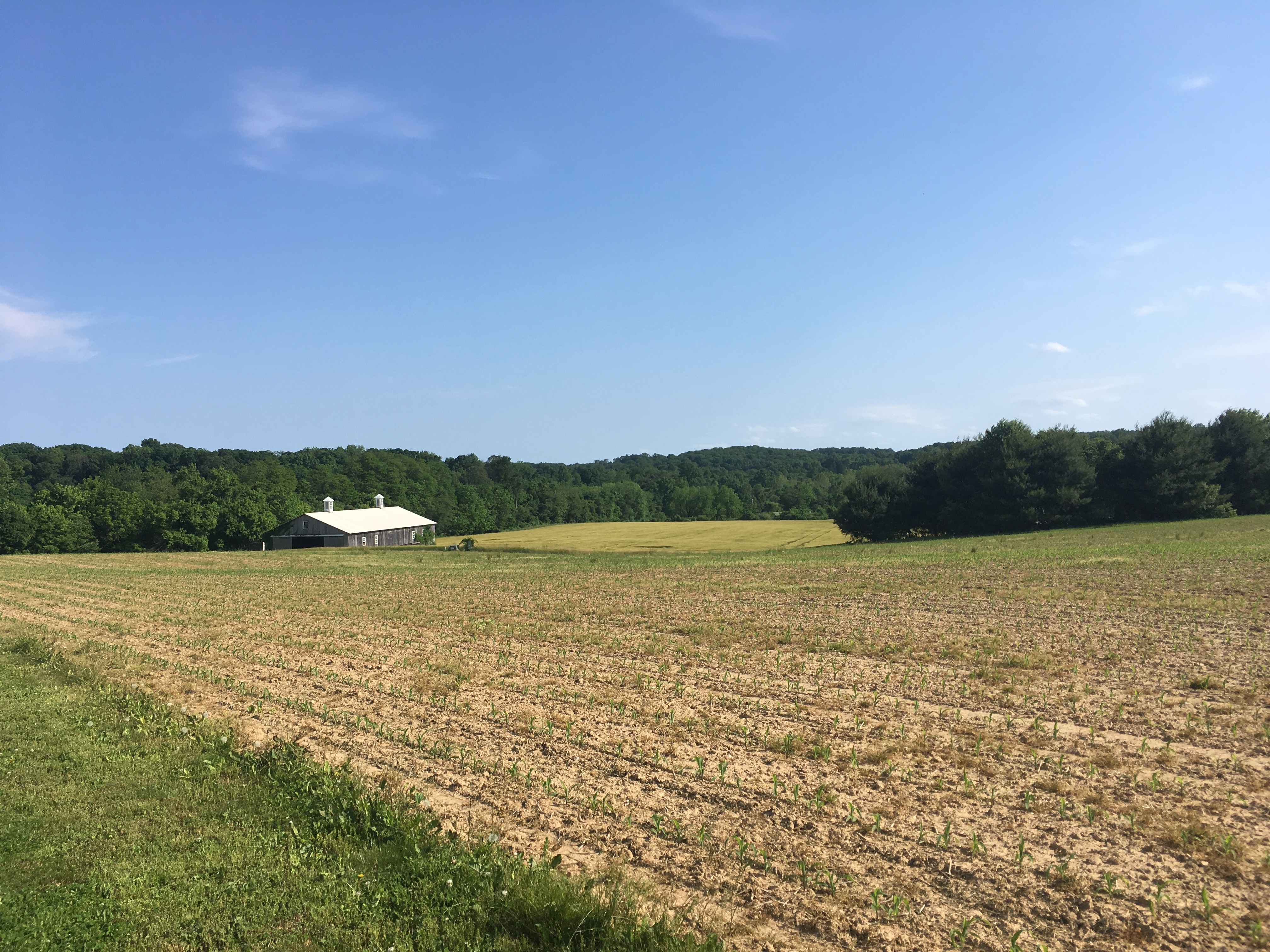 A farm located near Fair Hill, Maryland